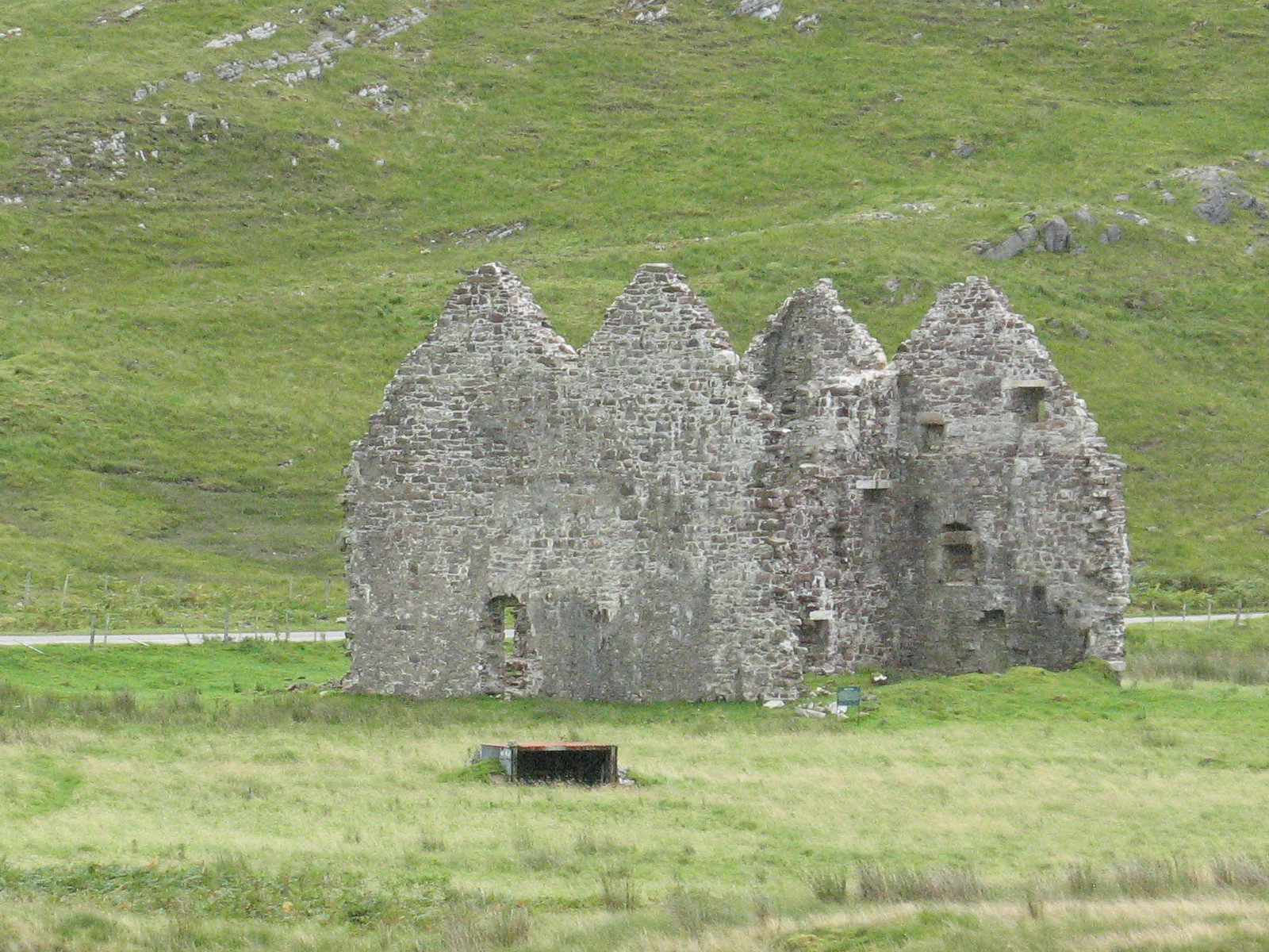 Calda House close by Ardvreck Castle at Loch Assynt.